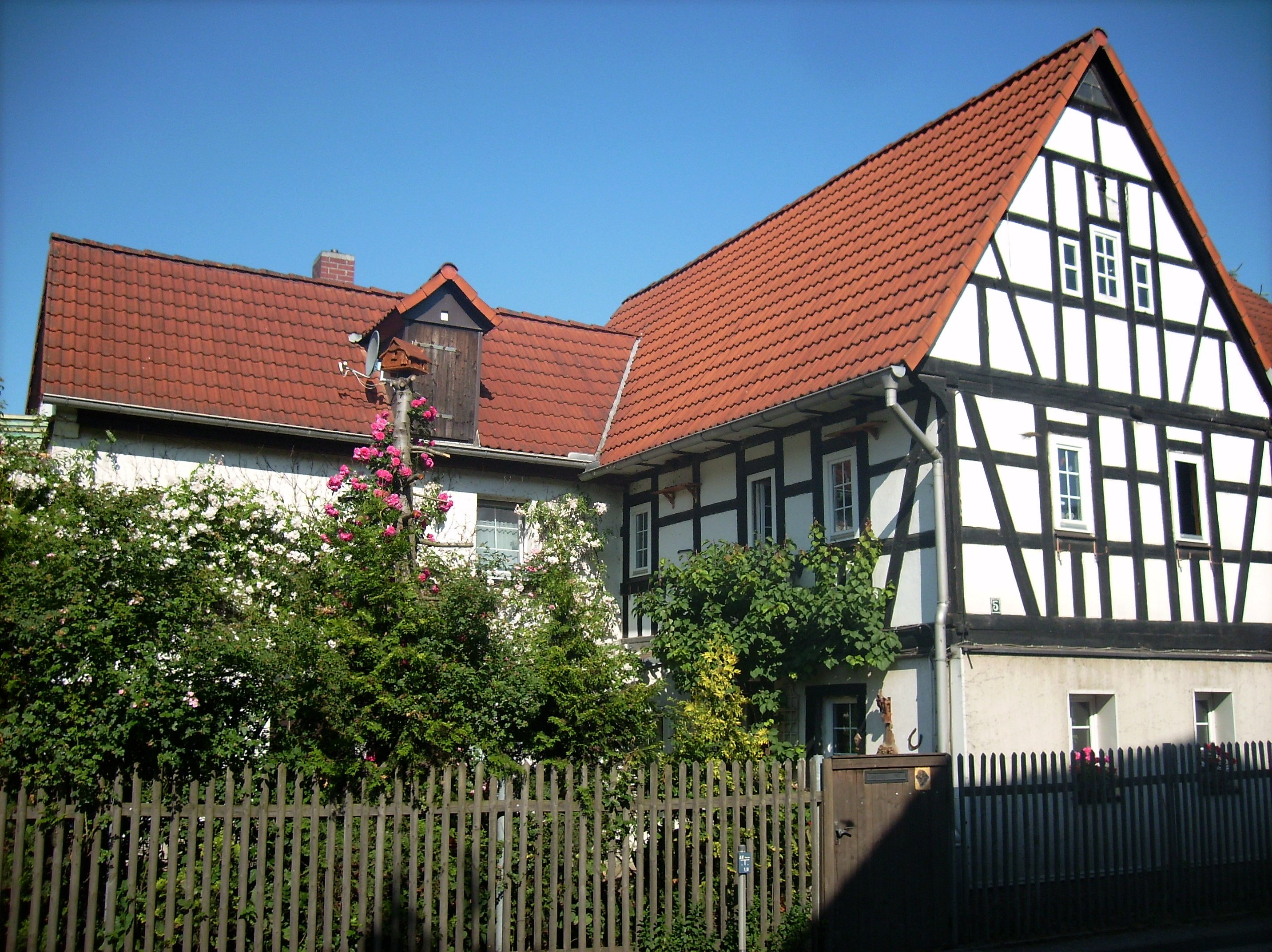 Half-timbered building in Haselbach (district of Altenburger Land, Thuringia)